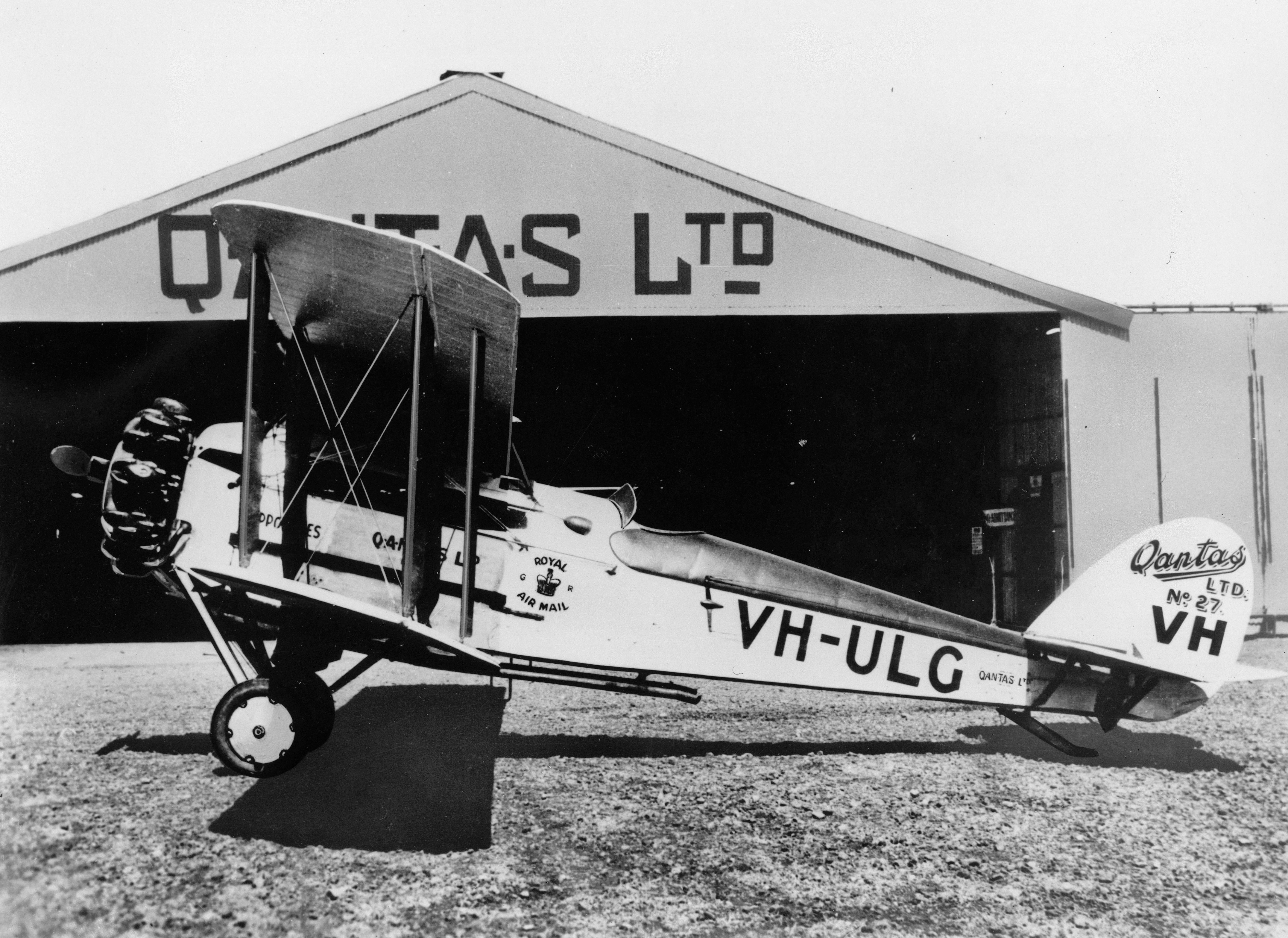 De Havilland DH.50J VH-ULG Hippomenes of Qantas at Longreach, Queensland.